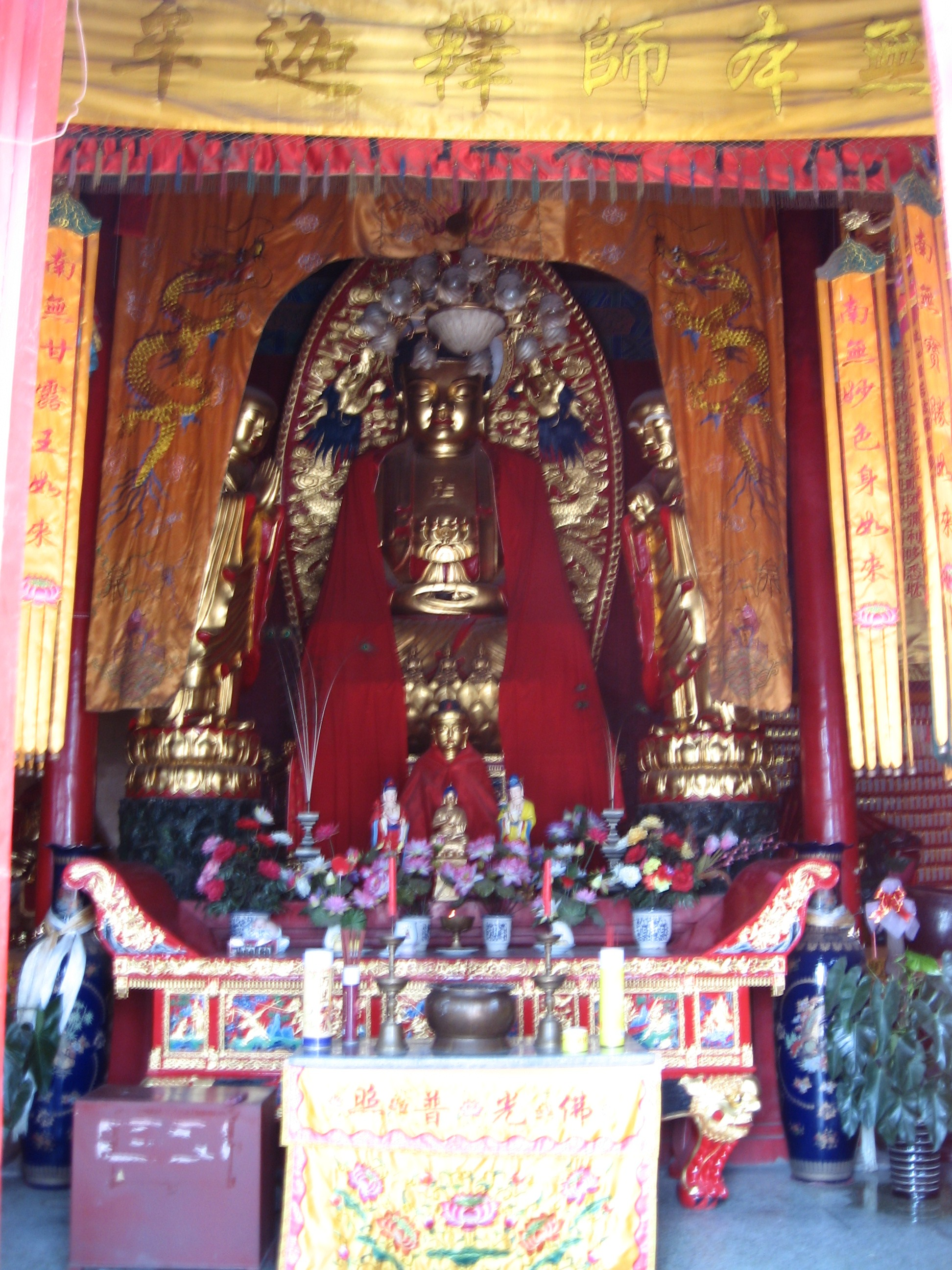 Linji monastery in Zhengding Hebei,China.